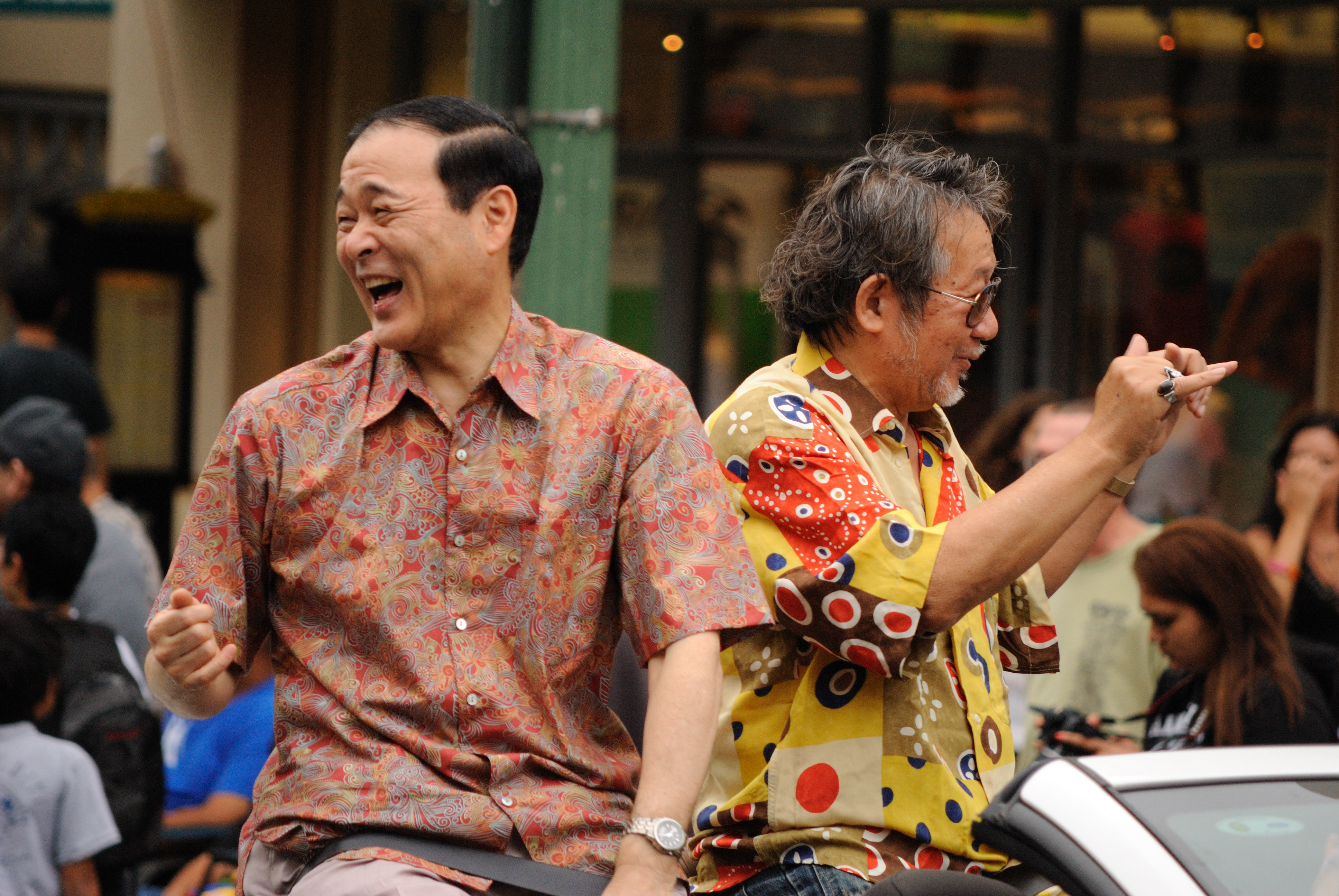 Tamio Mori (mayor of Nagaoka) on the left. Nobuhiko Obayashi (Japanese director) on the right.